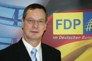 Hellmut Königshaus, MP